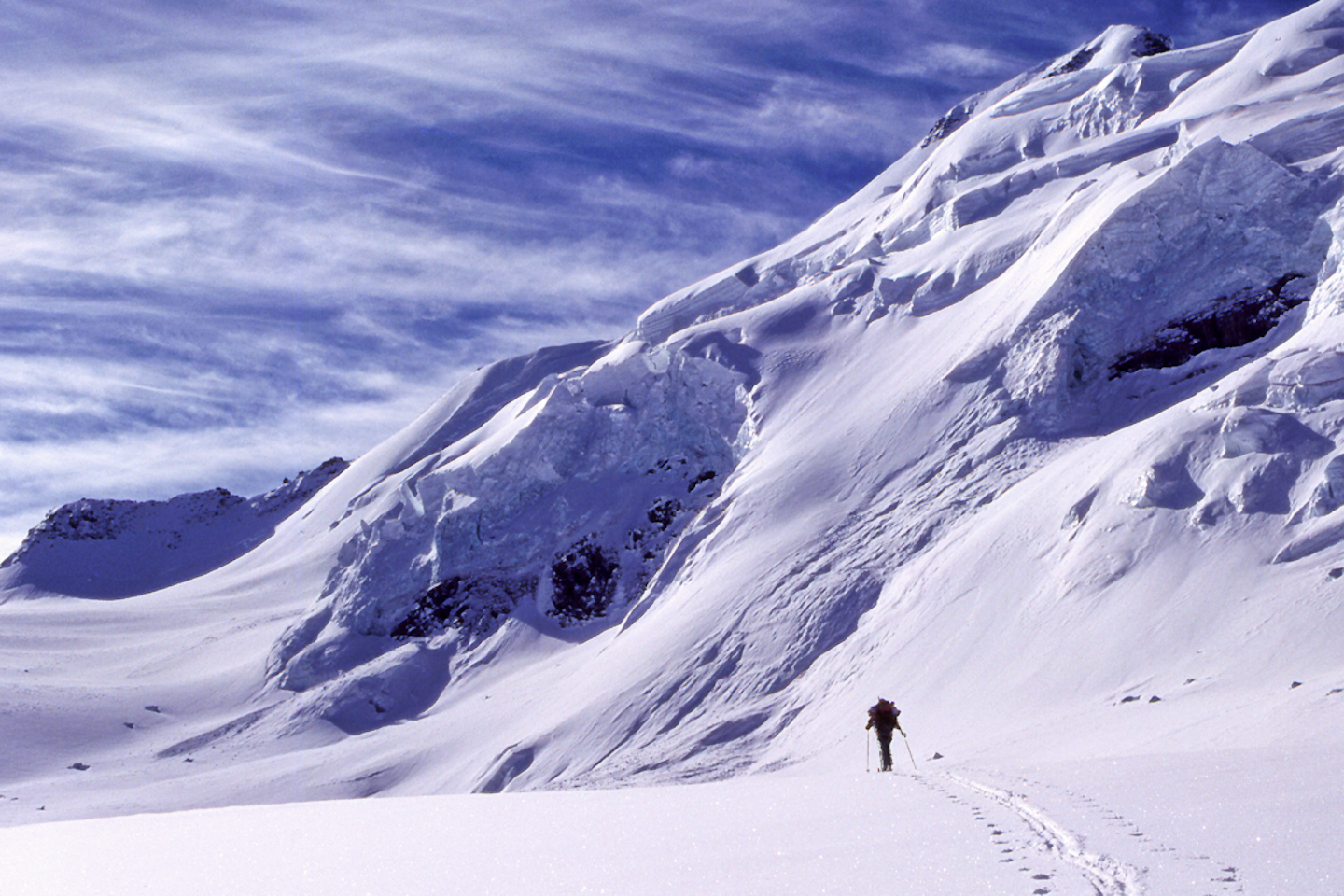 Mt. Balfour approach is to the col off just to the left of the photo (the normal route is around and up the backside). This was done as part of the Wapta E/W traverse. Vic is the skier.